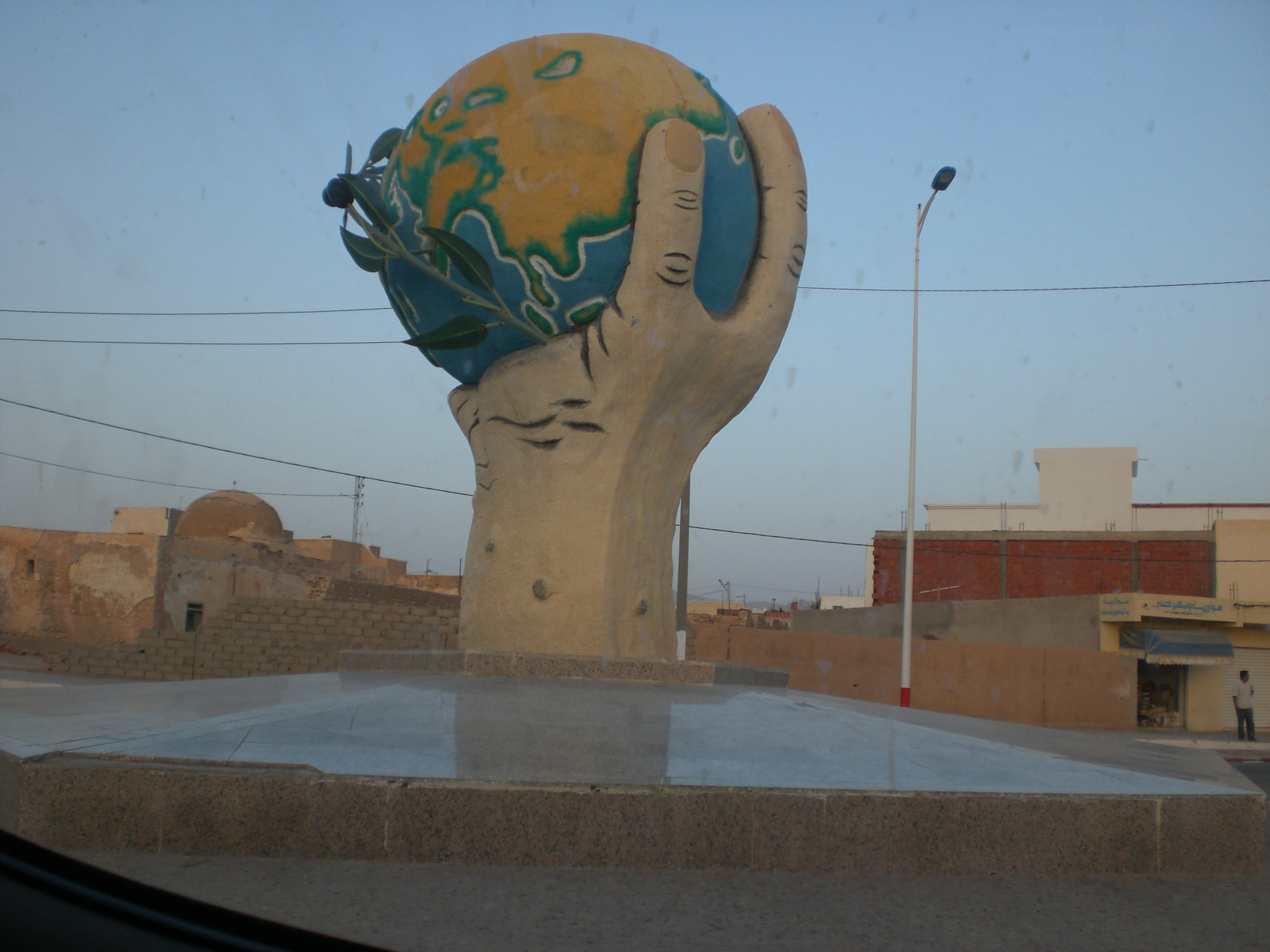 The center of Ksar Gafsa town